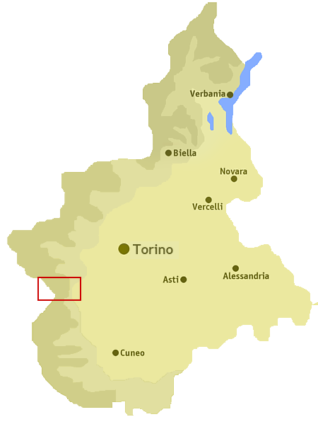 Position of the valley Val Pellice